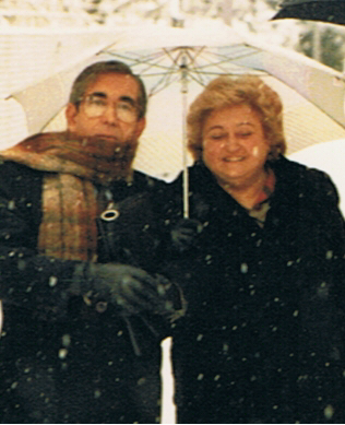 Josep Santafé and Lourdes Casanovas, spanish paleontologists. At the International Symposium on Mammalian Biostratigraphy and Paleoecology of the European Paleogene, Mainz, Germany, February 1987